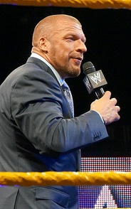 Triple H